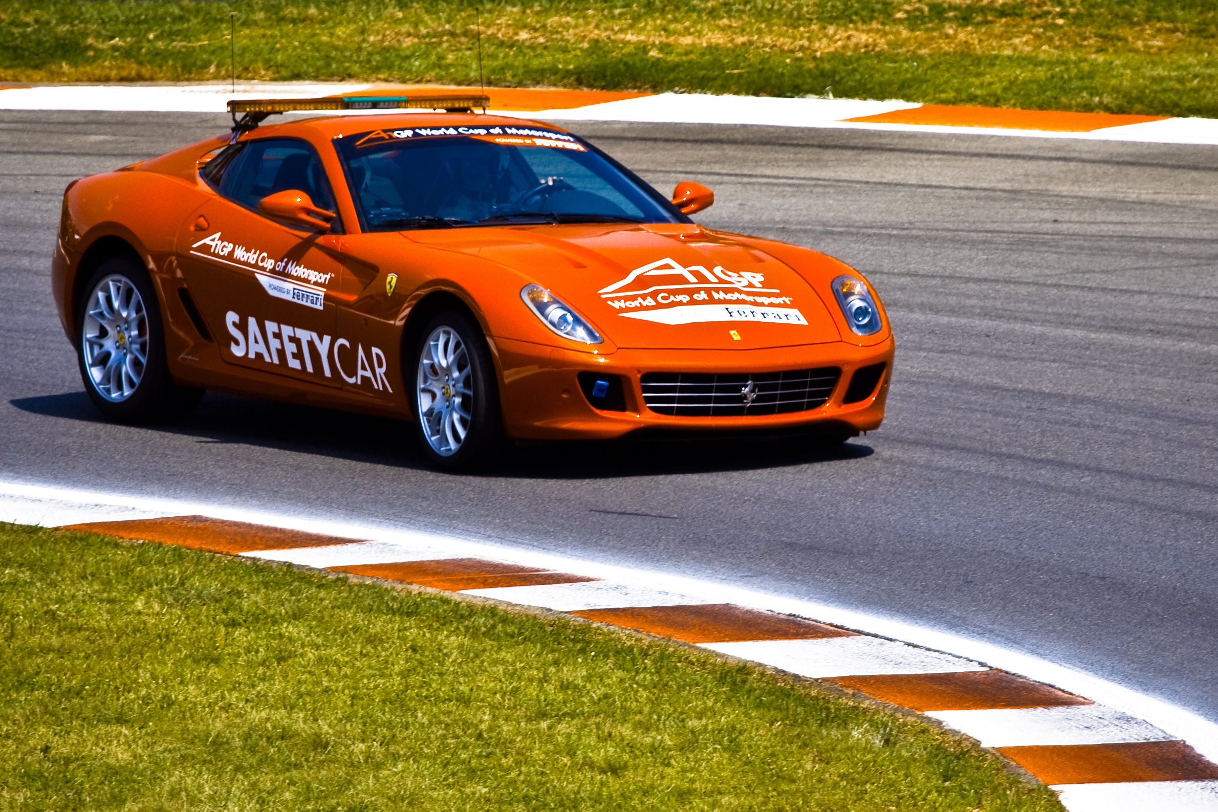 Better with B l a c k M a g i c